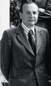 Harry Schwarz in the Progressive Reform Party photo in 1976.